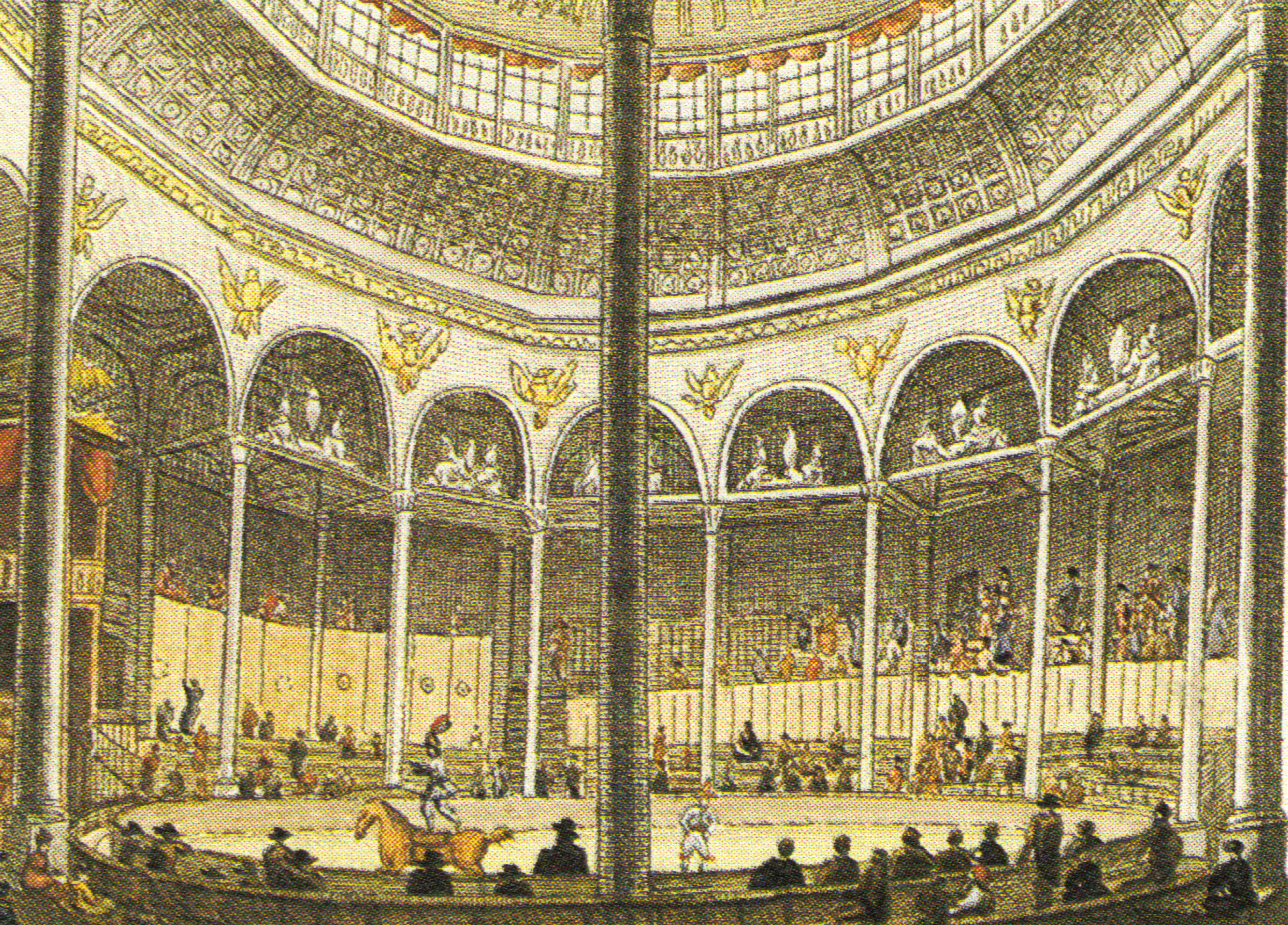 bach's Circus gymnasticus (Inside view). Architect Kornhaeusel